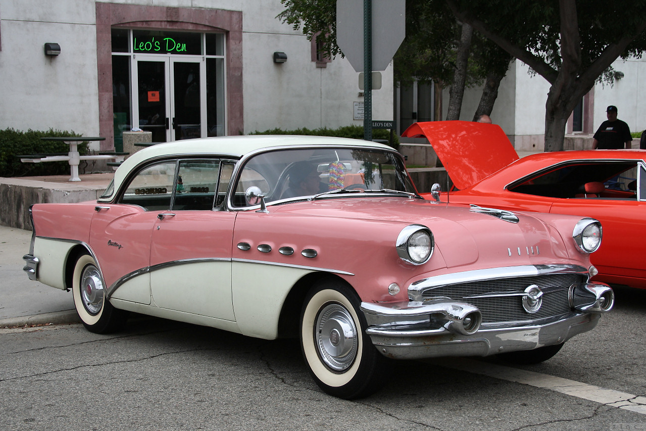 1956 Buick Century Riviera Hardtop Sedan